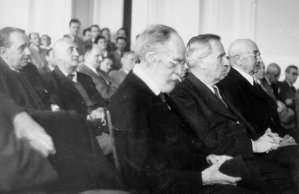 Béla Tettamanti, Ödön Polner, Árpád KIss, Gedeon Mészöly